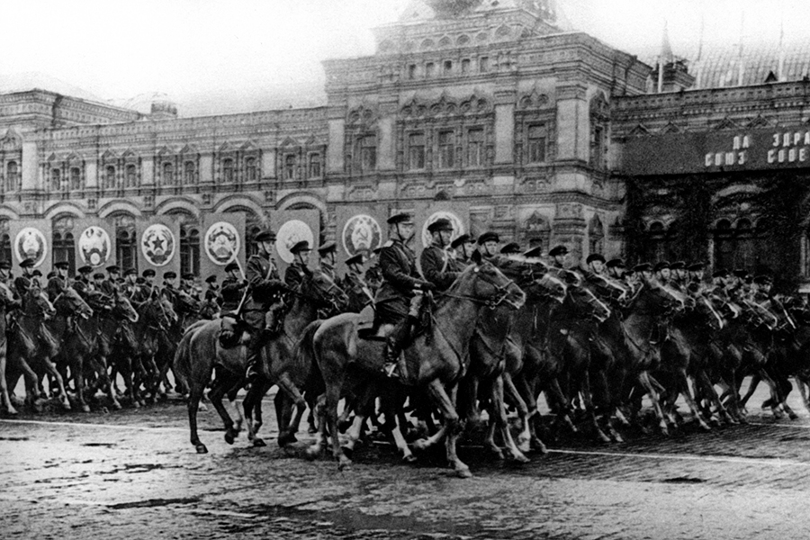 Soviet Victory Parade on Red Square